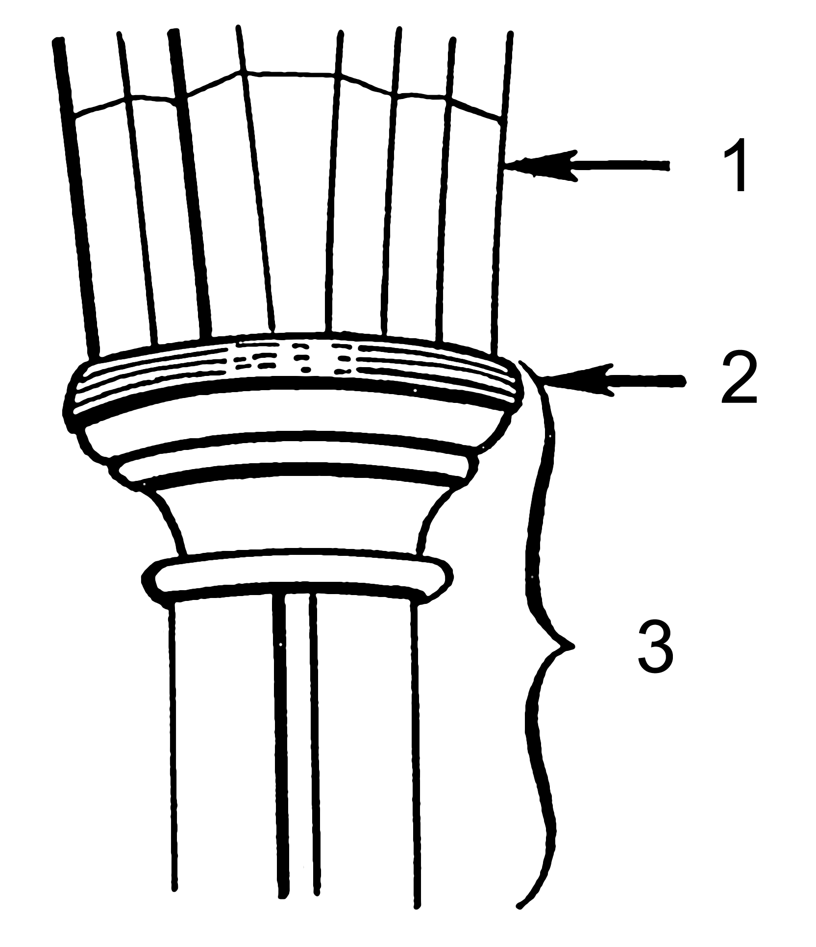 Line art drawing of an impost. End of arch Impost End of column